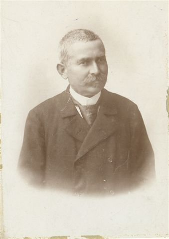 Hamerli János (1840-1895) glove maker.